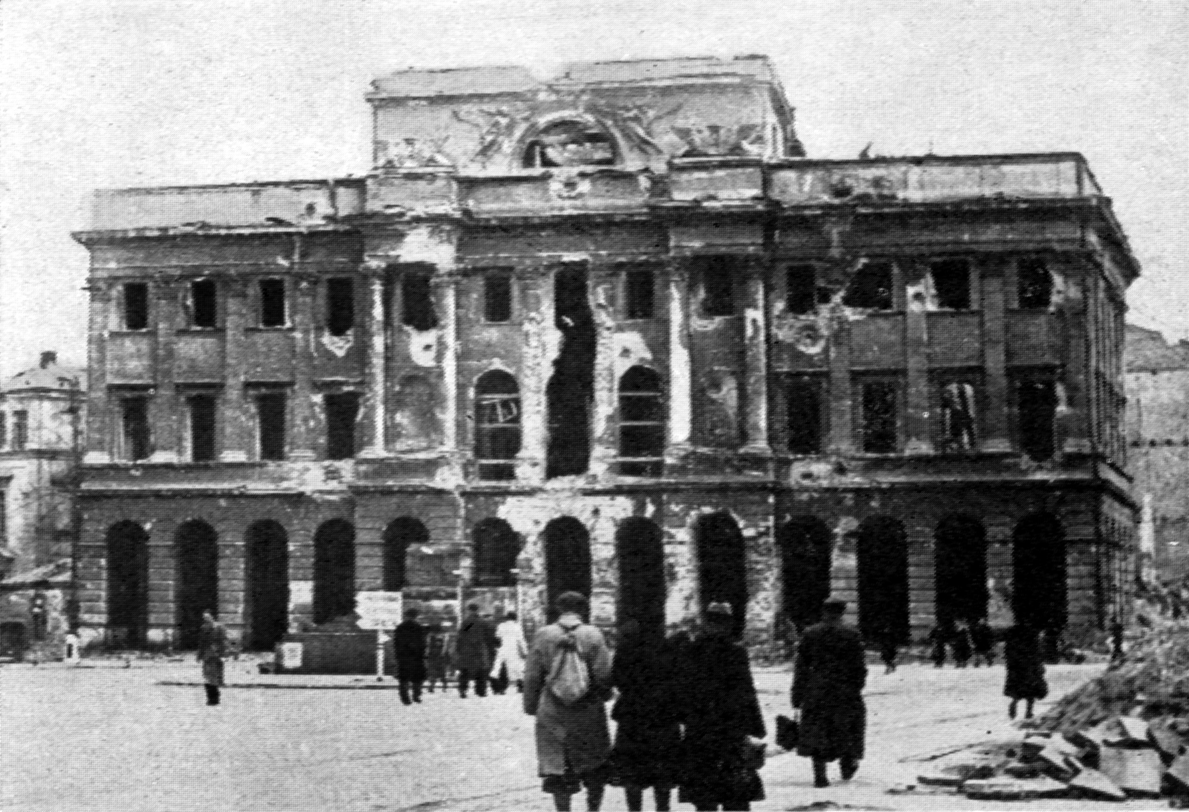 Staszic Palace, Warsaw, damaged during the 1944 Uprising